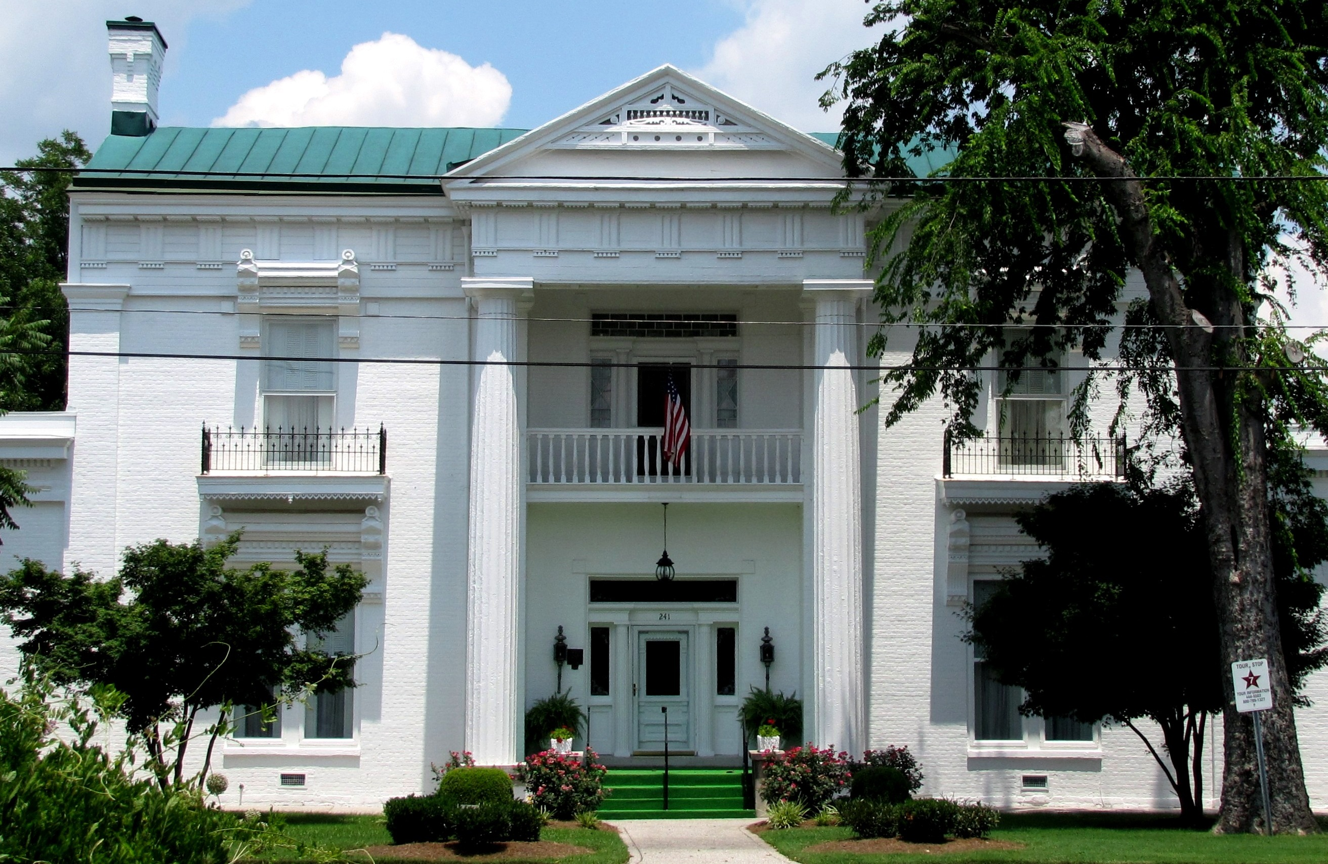 The home of Tennessee judge Robert L. Caruthers, built and designed by Henry Reiff in 1828. The house is now home to the Ligon & Bobo Funeral Home.